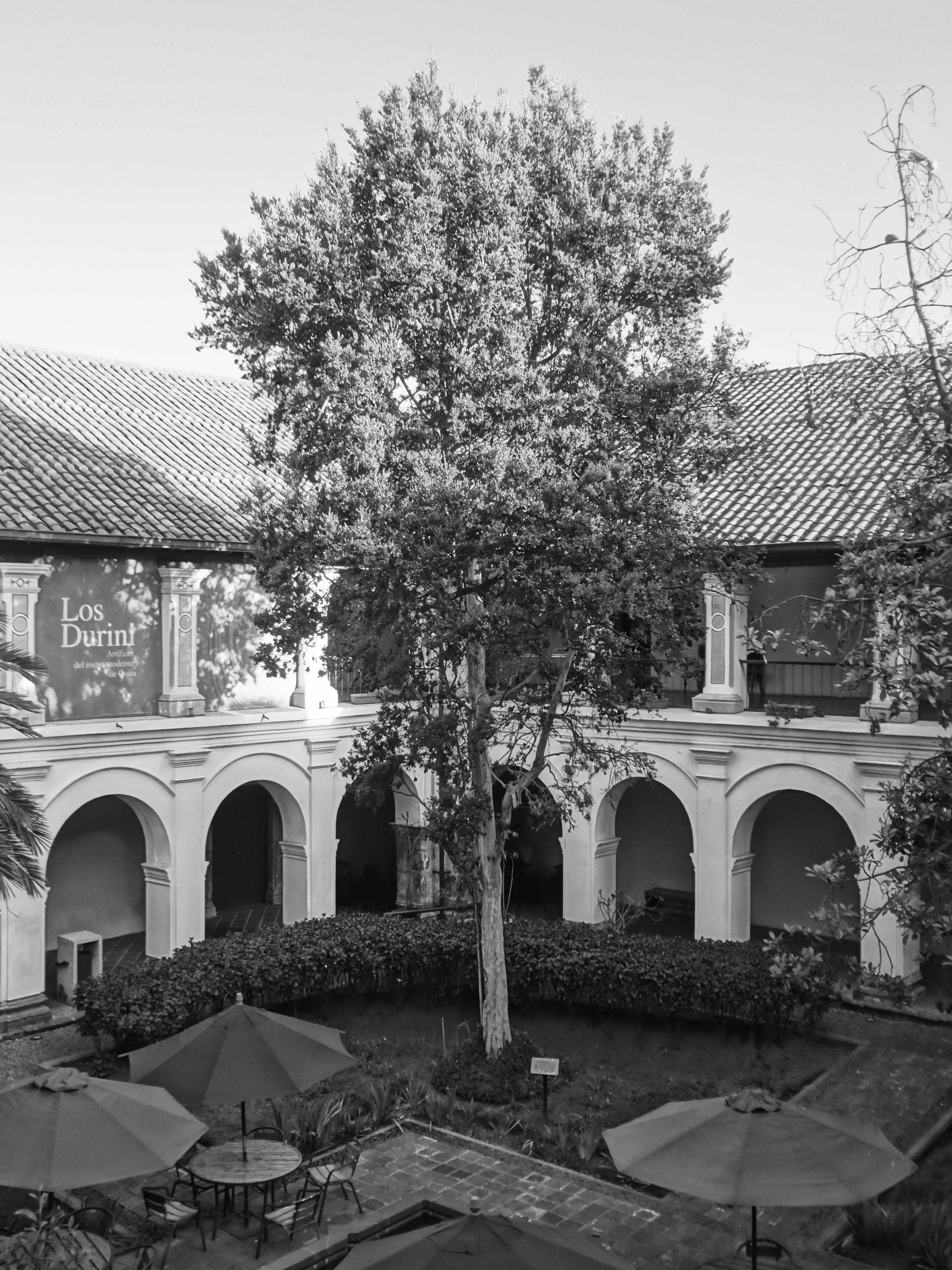 Interior, Museum of the City, (Museo de la Ciudad), Historic Center of Quito, Ecuador located in the Andes Mountains, South America. San Juan de Dios Hospital interior courtyard. was a hospital located in Quito, Ecuador. It was the first hospital founded in the city and was open from 1565 to 1974. It has been designated a UNESCO Cultural World Heritage Site. Historic Center of Quito UNESCO World Heritage Site. Centro Histórico de Quito El centro histórico de Quito se encuentra ubicado en el centro sur de la ciudad de Quito, en Ecuador, sobre una superficie de 375,2 hectáreas (3,75 km²), Photography by David Adam Kess